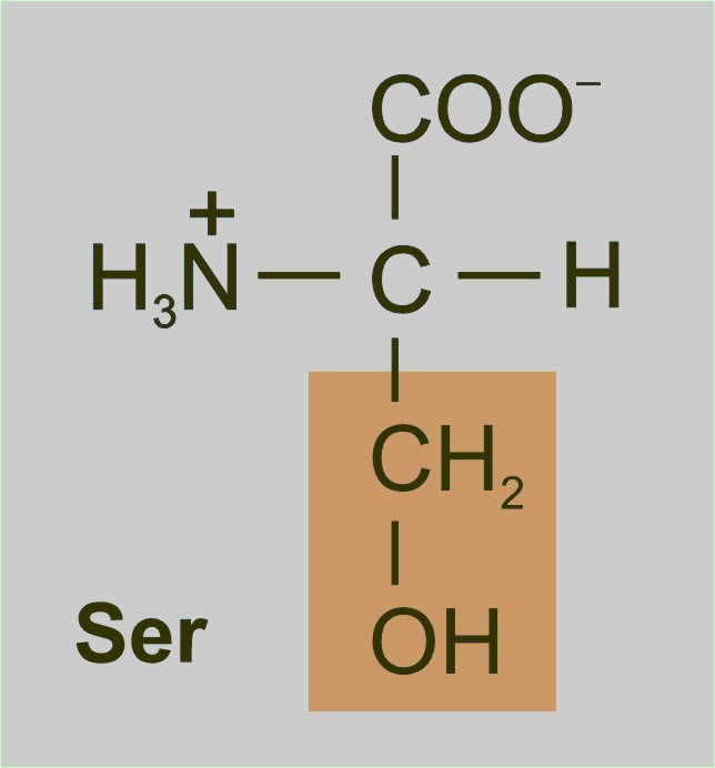 Serine amino acid formula jpg